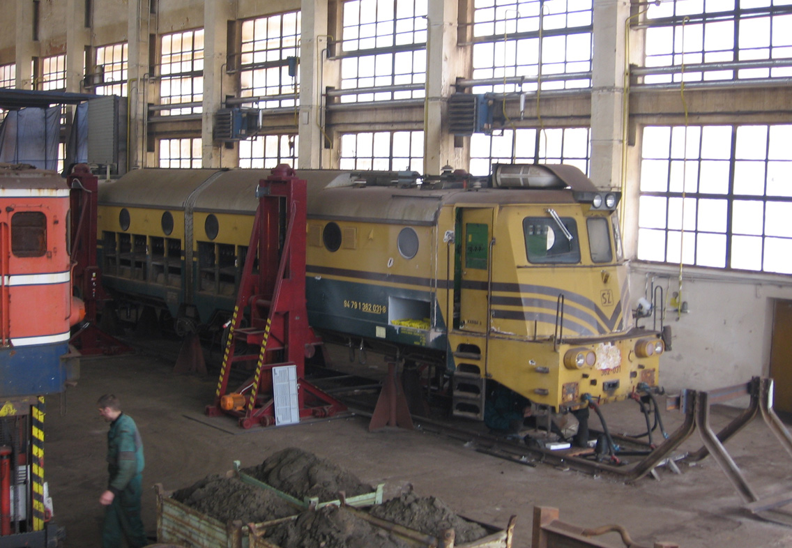 362.031 under reconstruction in Přerov, CZ